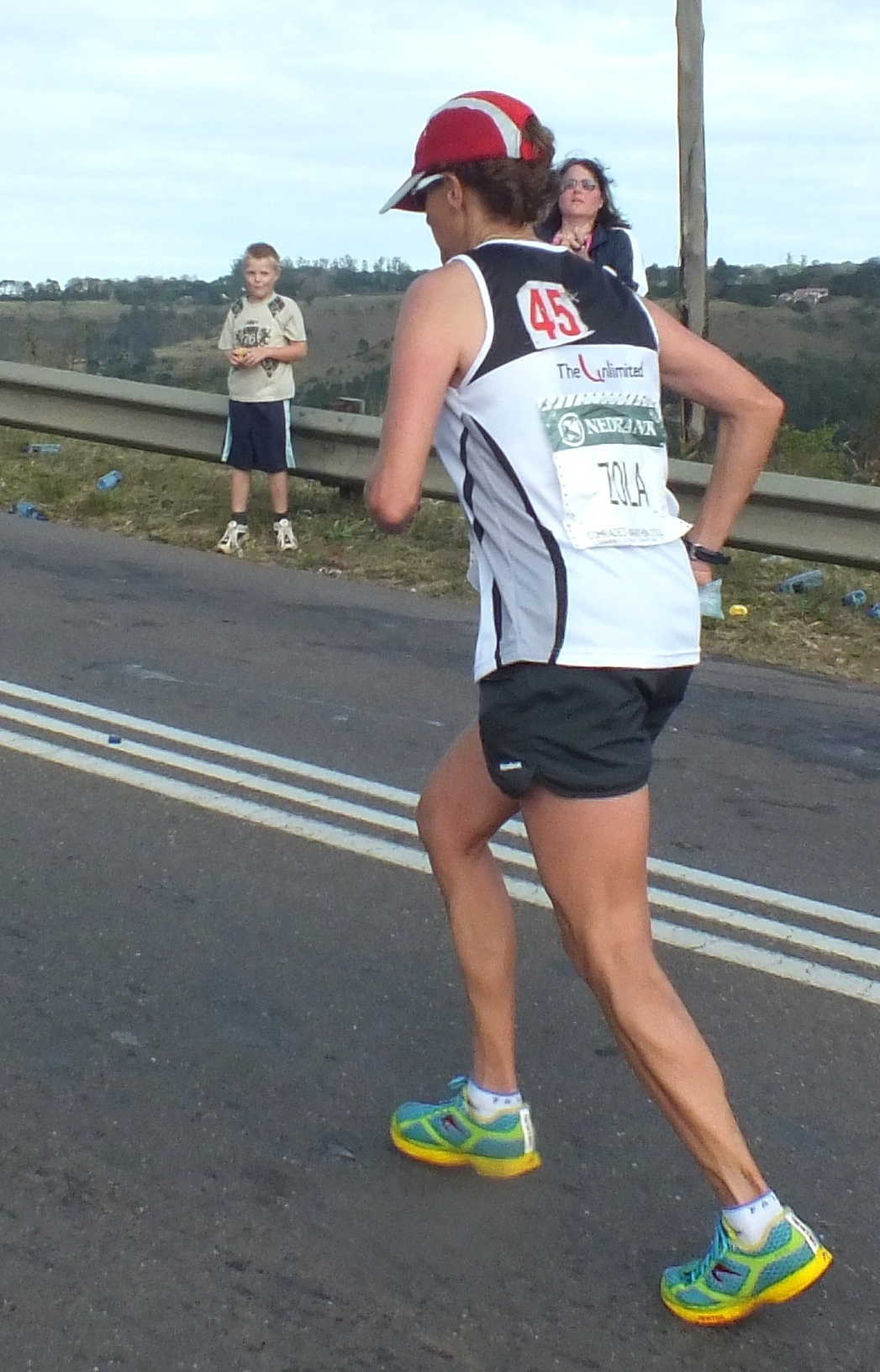 Zola Pieterse ascending Botha's Hill in the 2012 Comrades